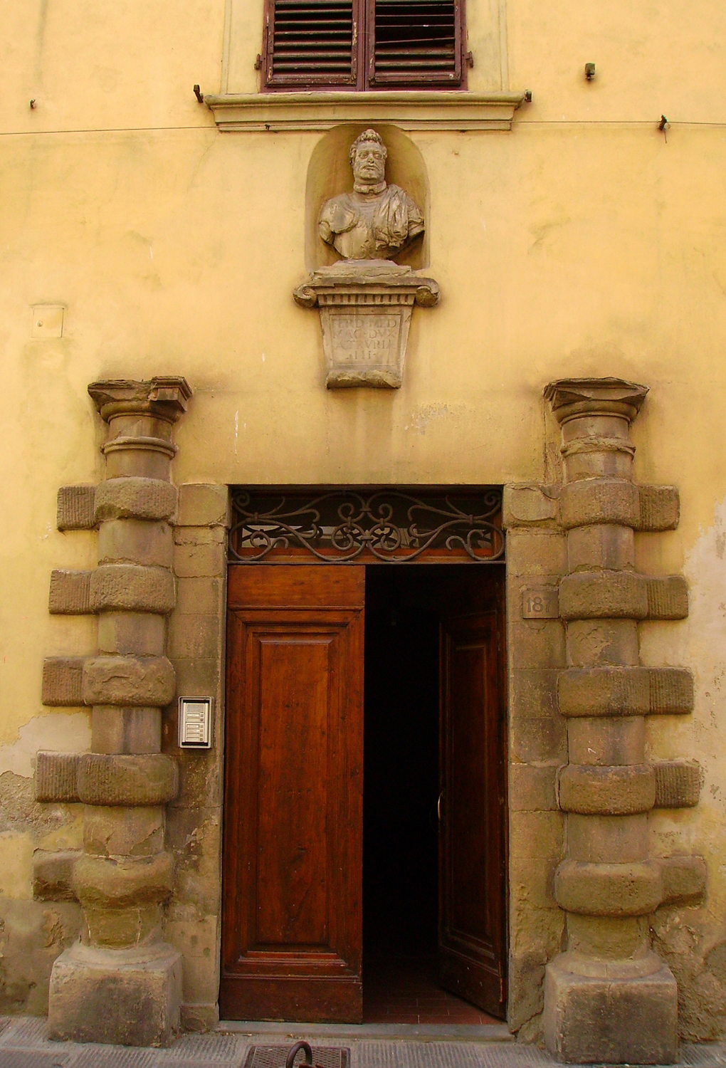 The entrance of the mansion of Grand Ducal Farm on the main street of Montevarchi